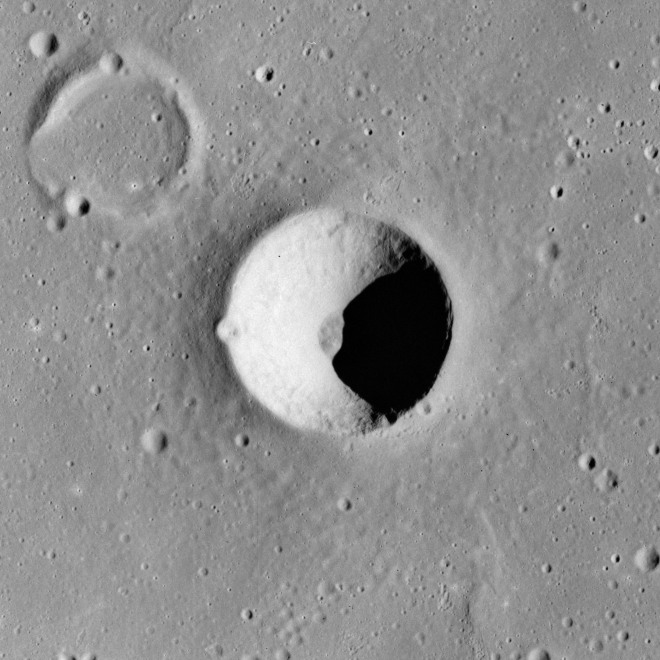 Ångström crater, on the moon. The ghost crater in upper left is unnamed.